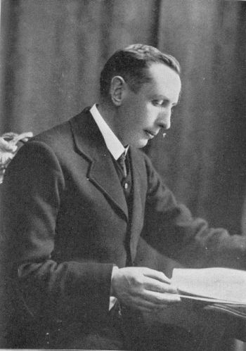 T. C. Murray - Project Gutenberg eText 19028